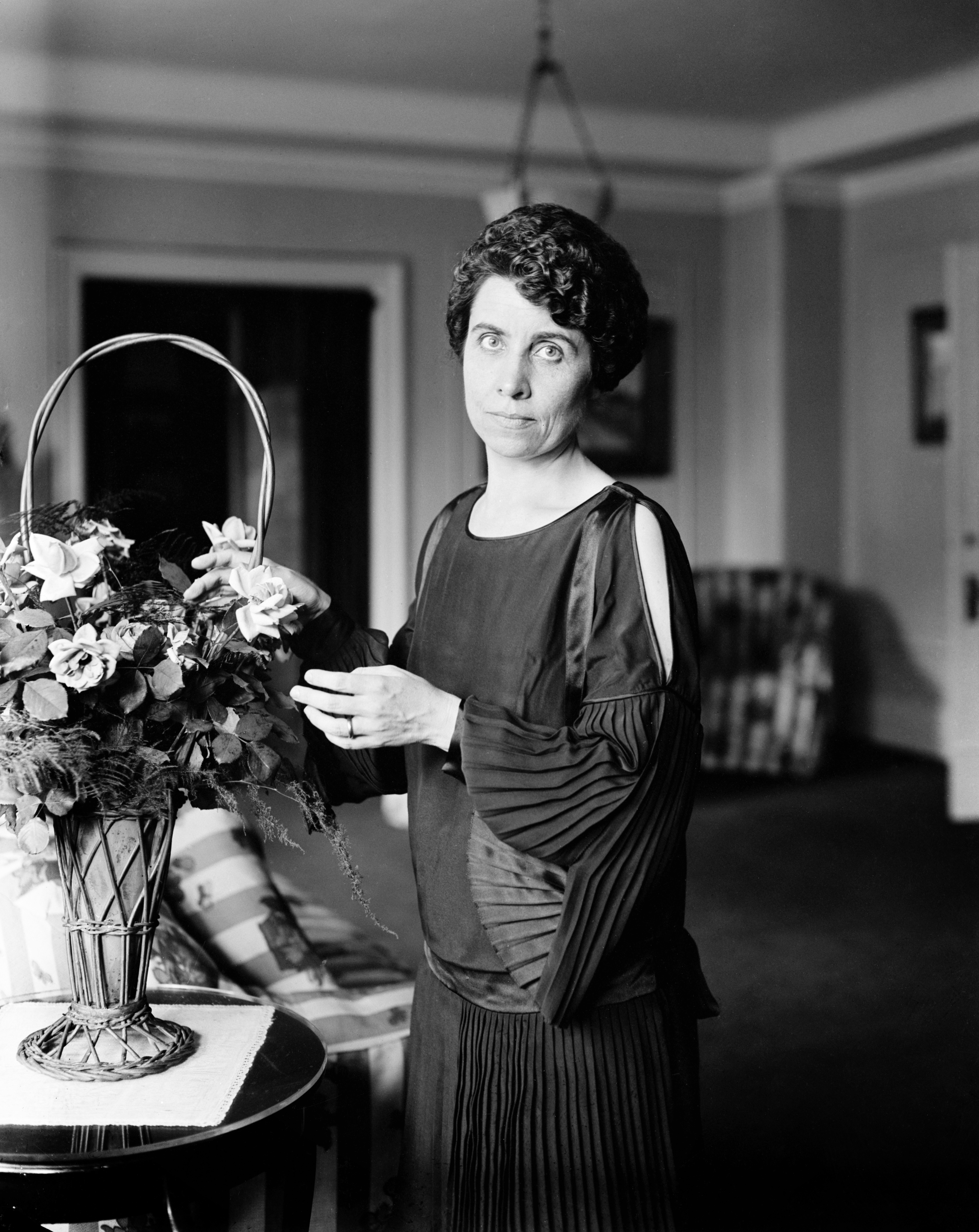 half-length portrait, standing next to a flower vase